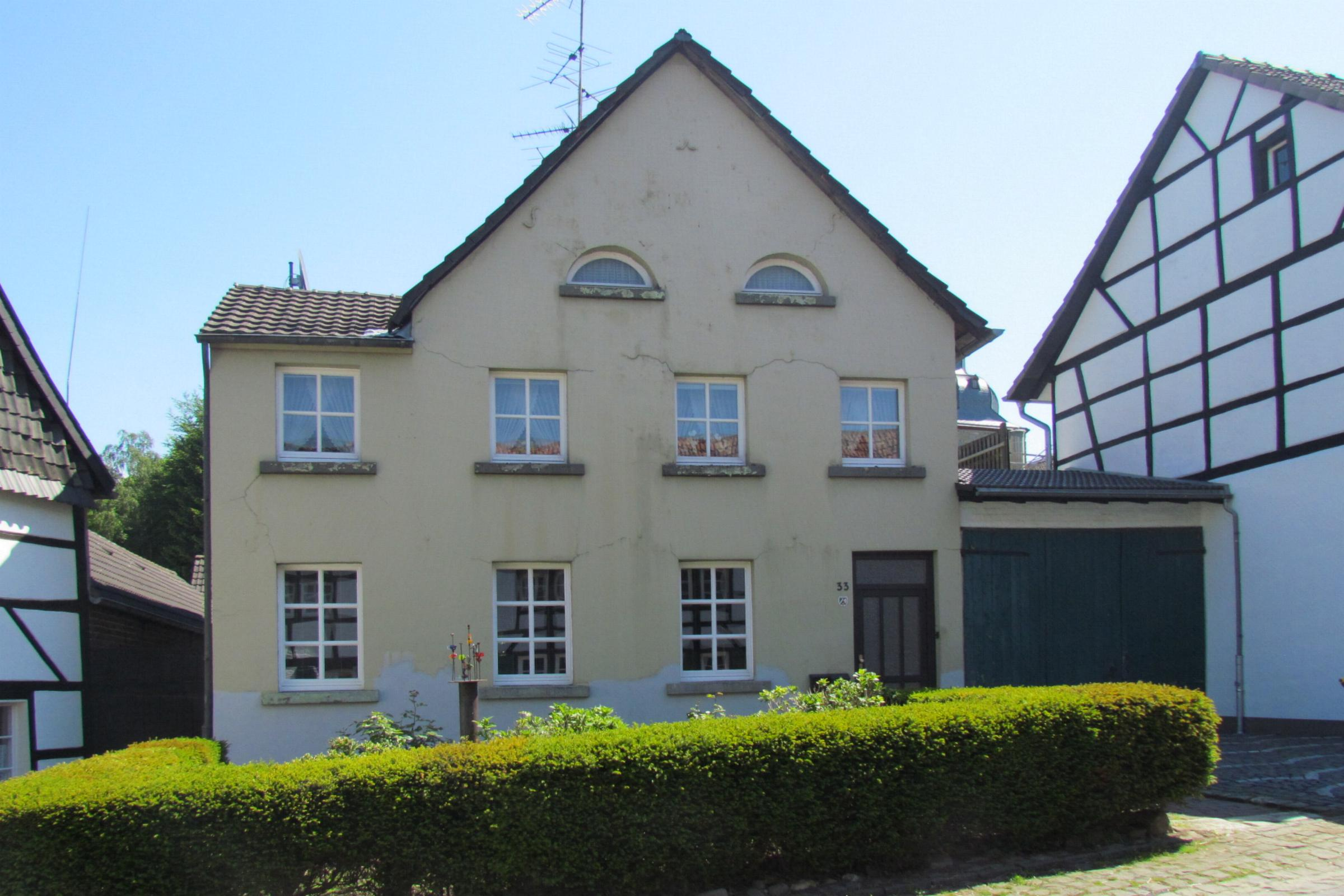 This is a photograph of an architectural monument.It is on the list of cultural monuments of Korschenbroich